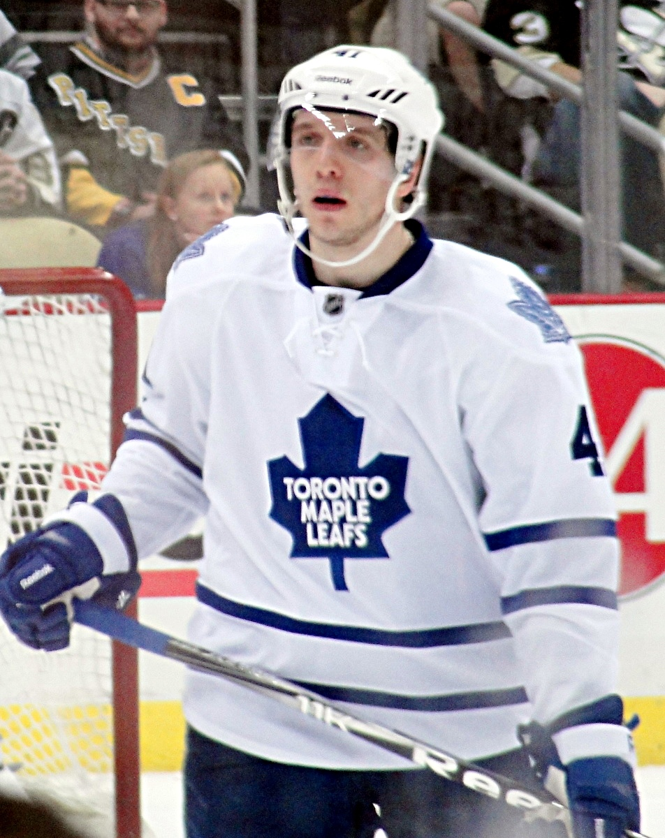 Toronto Maple Leafs forward Nikolai Kulemin skates against the Pittsburgh Penguins, March 7, 2012 at Consol Energy Center in Pittsburgh, PA.